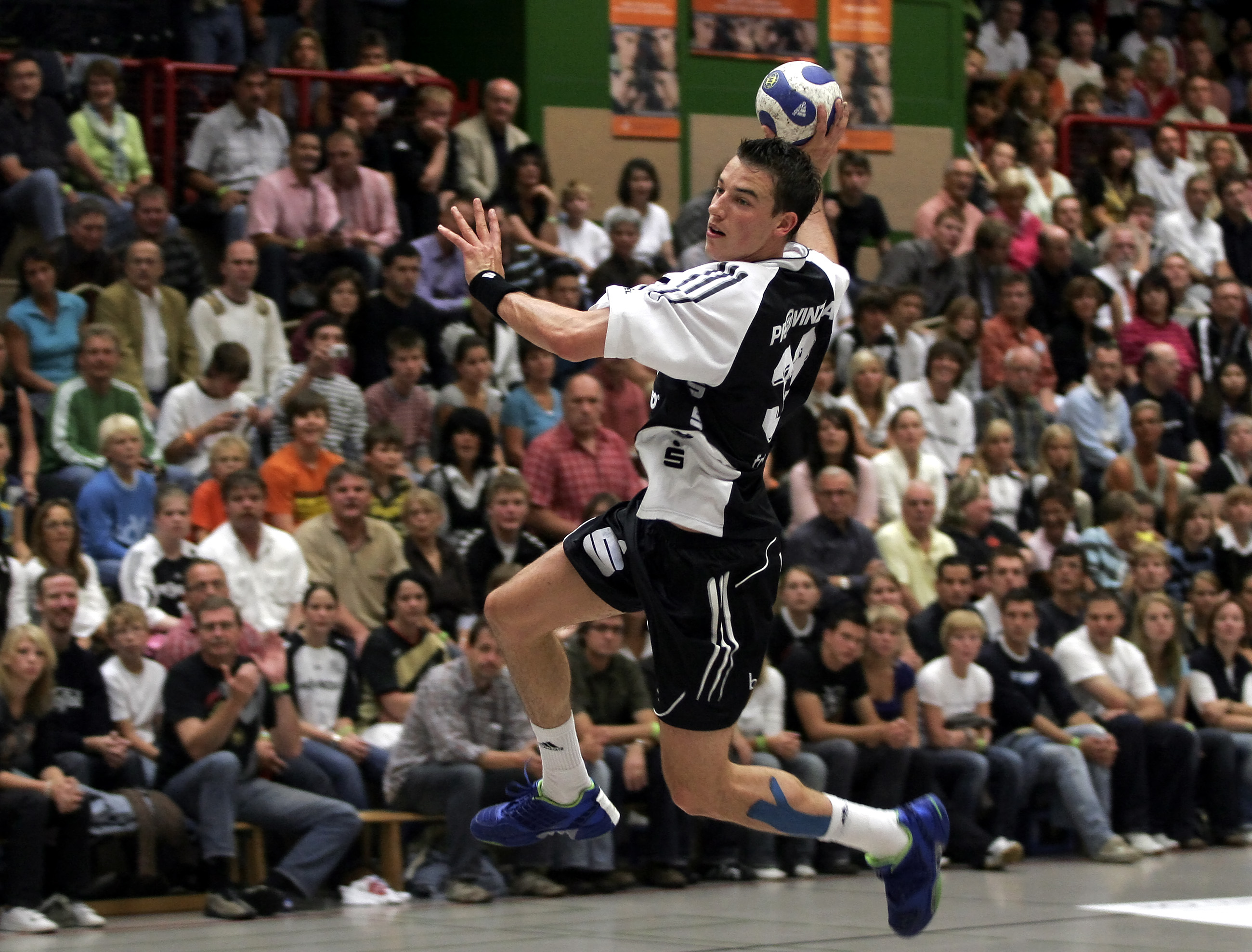 Dominik Klein, German Handball player from THW Kiel, during the Schlecker Cup 2007 in Ehingen (Germany)